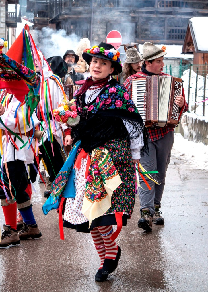 The "Žinghenésta" the most beautiful girl in the country, elected Queen of Carnival party in the Belluno Dolomites